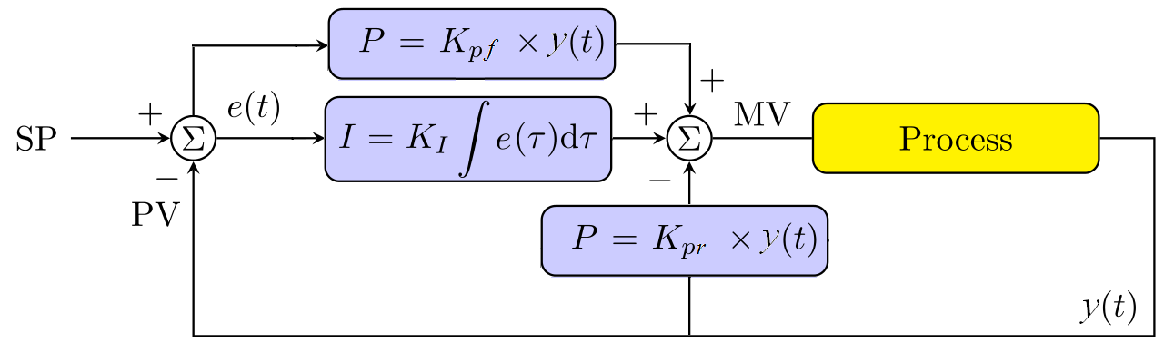 Basic block of Pseudo-derivative feedback forward (PDFF) controller, modifIed from File:Pseudo-derivative_feedback_controller.png